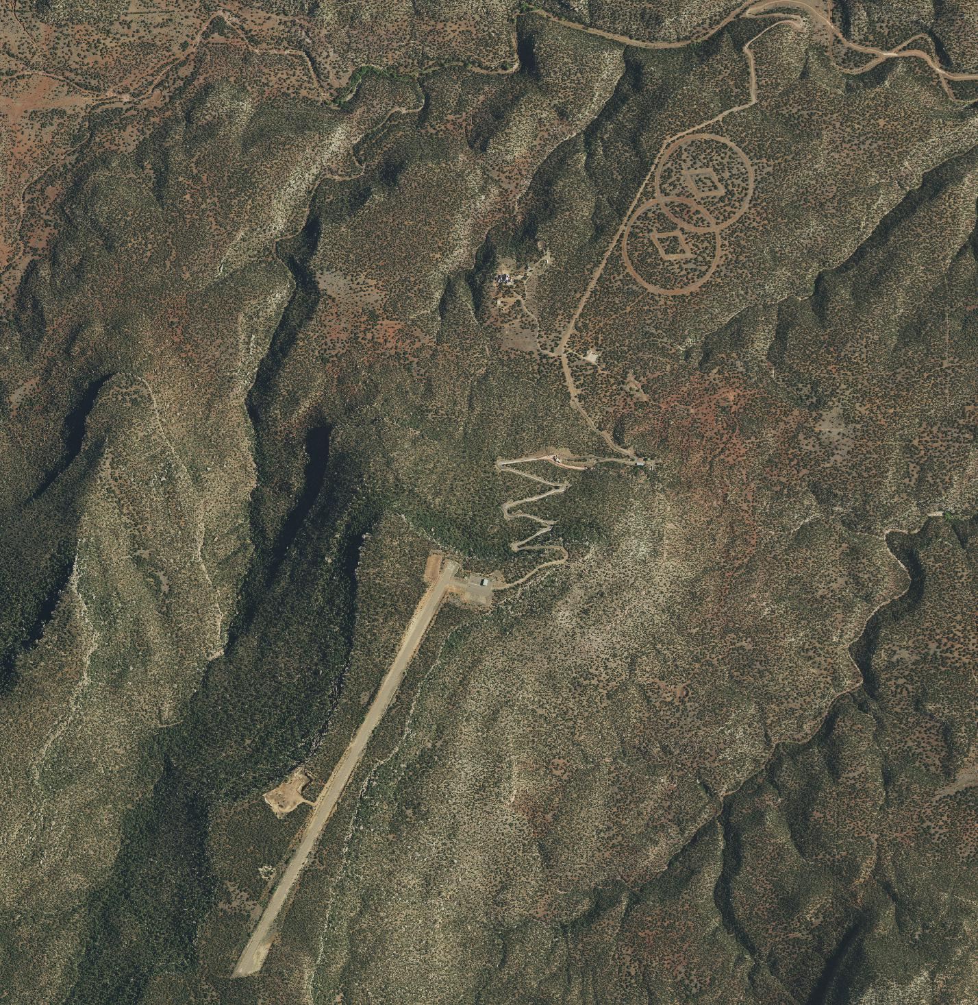 Satellite photo of Scientology "Trementina base", with diamonds-in-intersecting-circles symbol at top center.